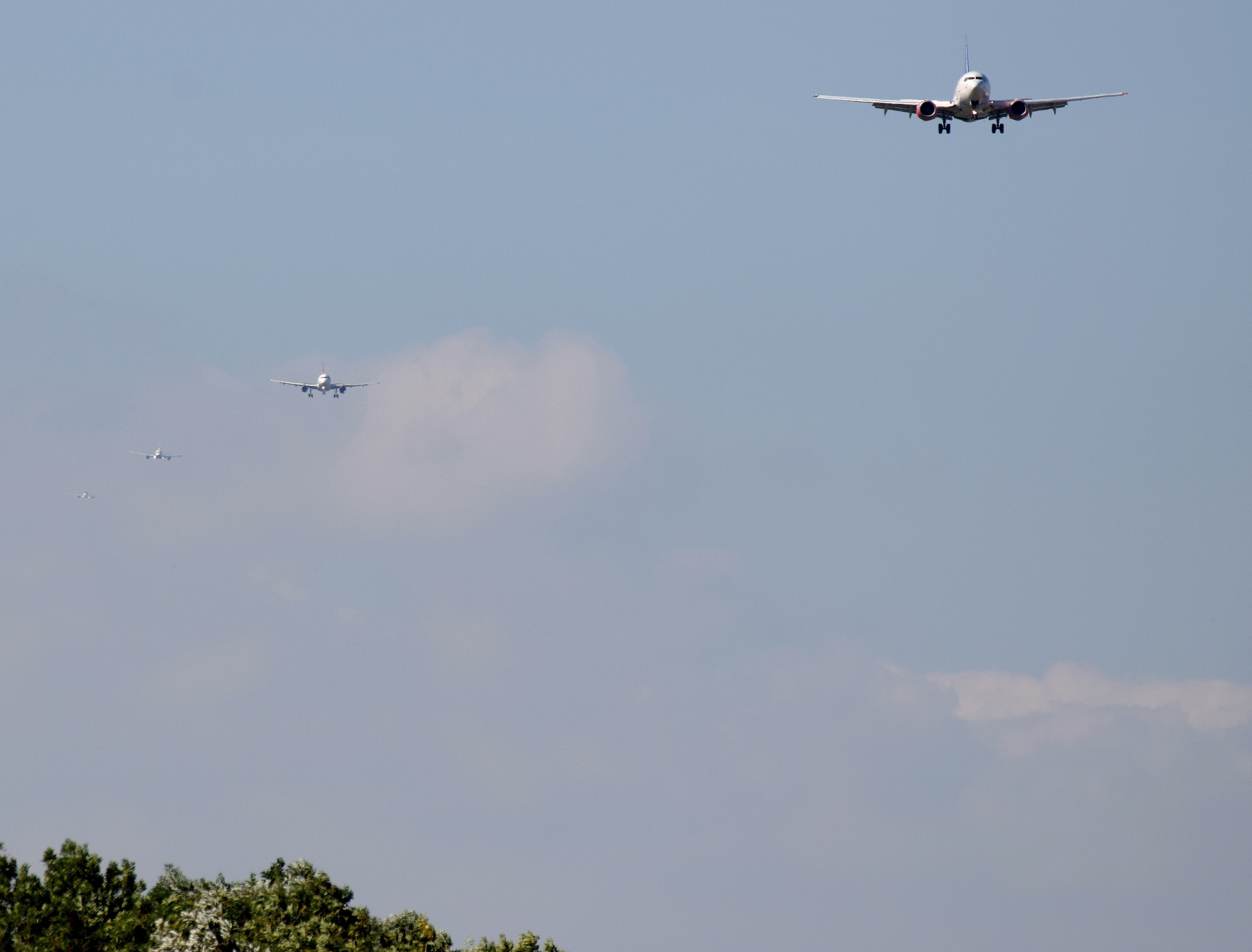 Four aircraft on the approach to runway 09L at London Heathrow Airport, England, 10th September 2015. For most of the airports operating hours, between 3 and 5 aircraft are lined up.